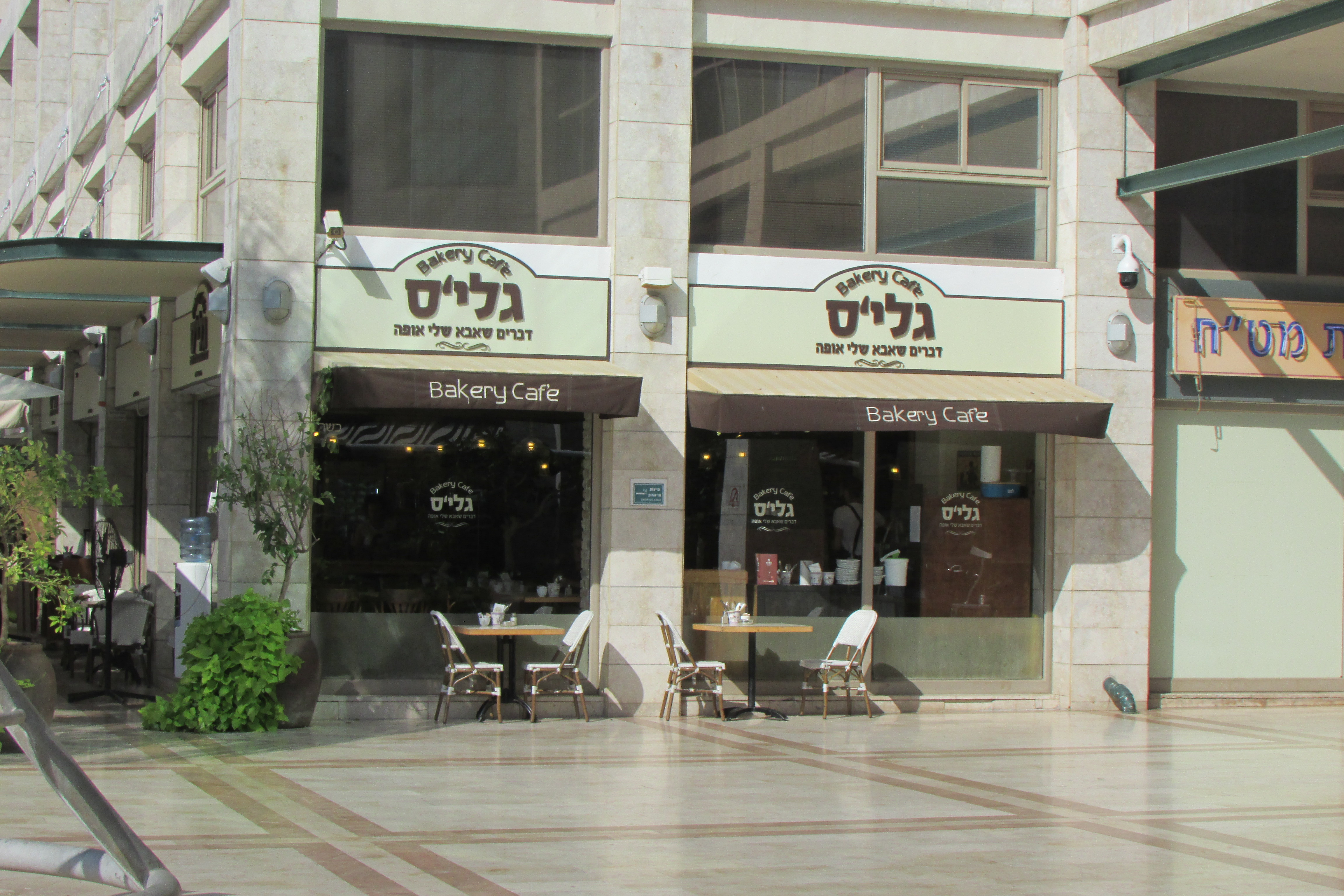 Gelis bakery Cafe in Kfar Saba industrial zone